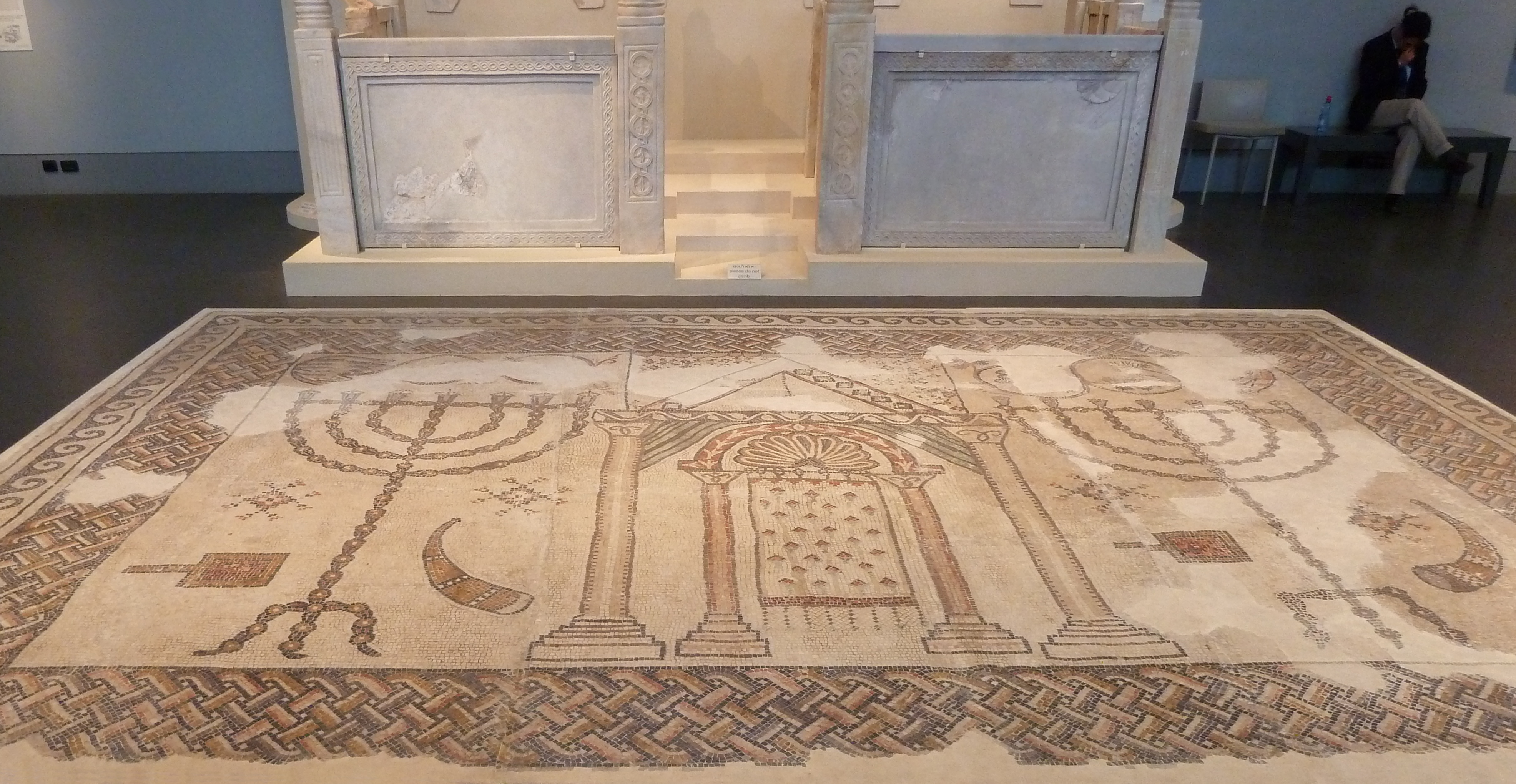 Israel Museum Beth Shean Synagogue mosaic floor